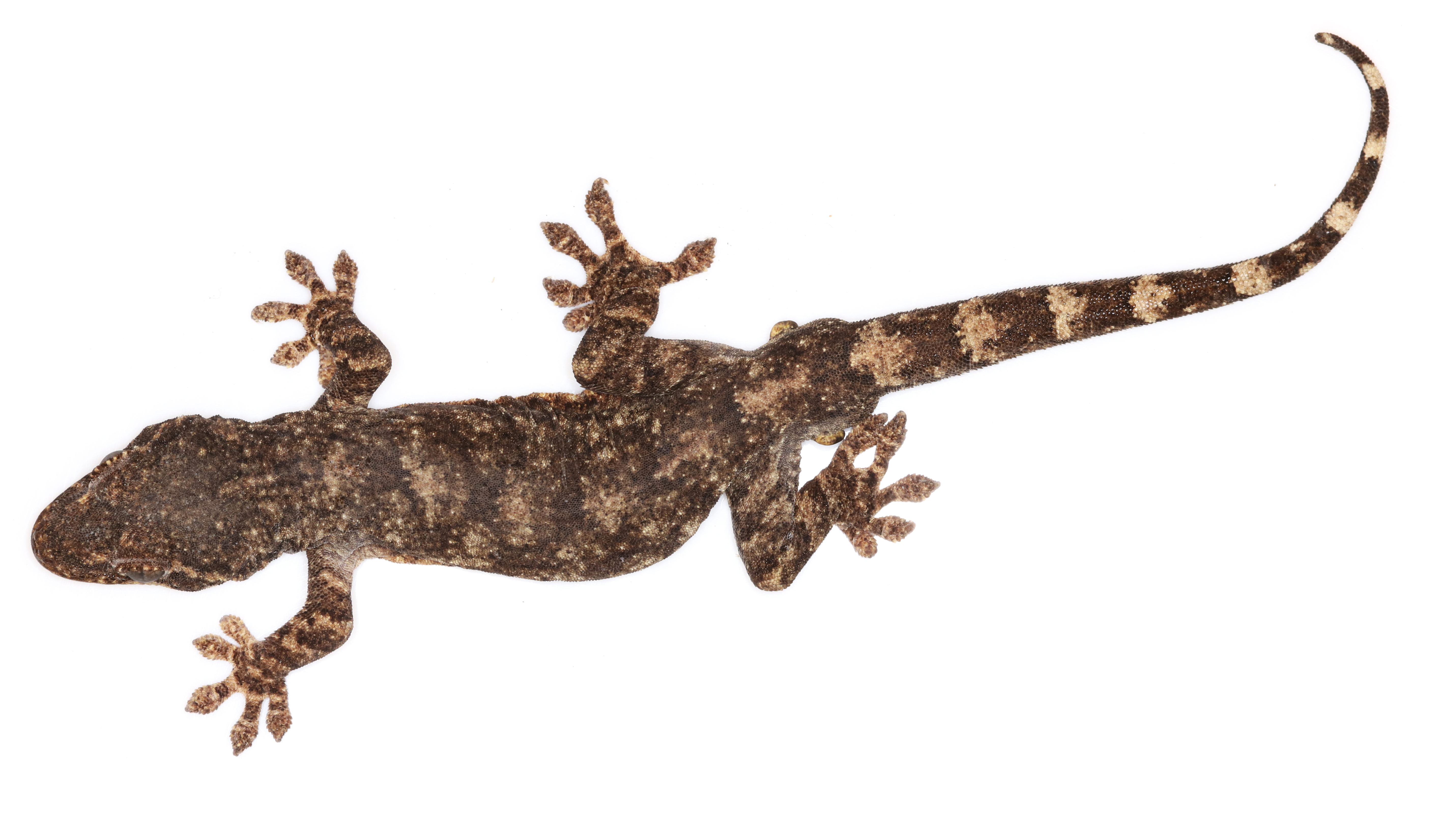 Tawa gecko